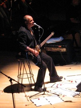 Jožo Ráž, member of Elán, in New York, September 2007